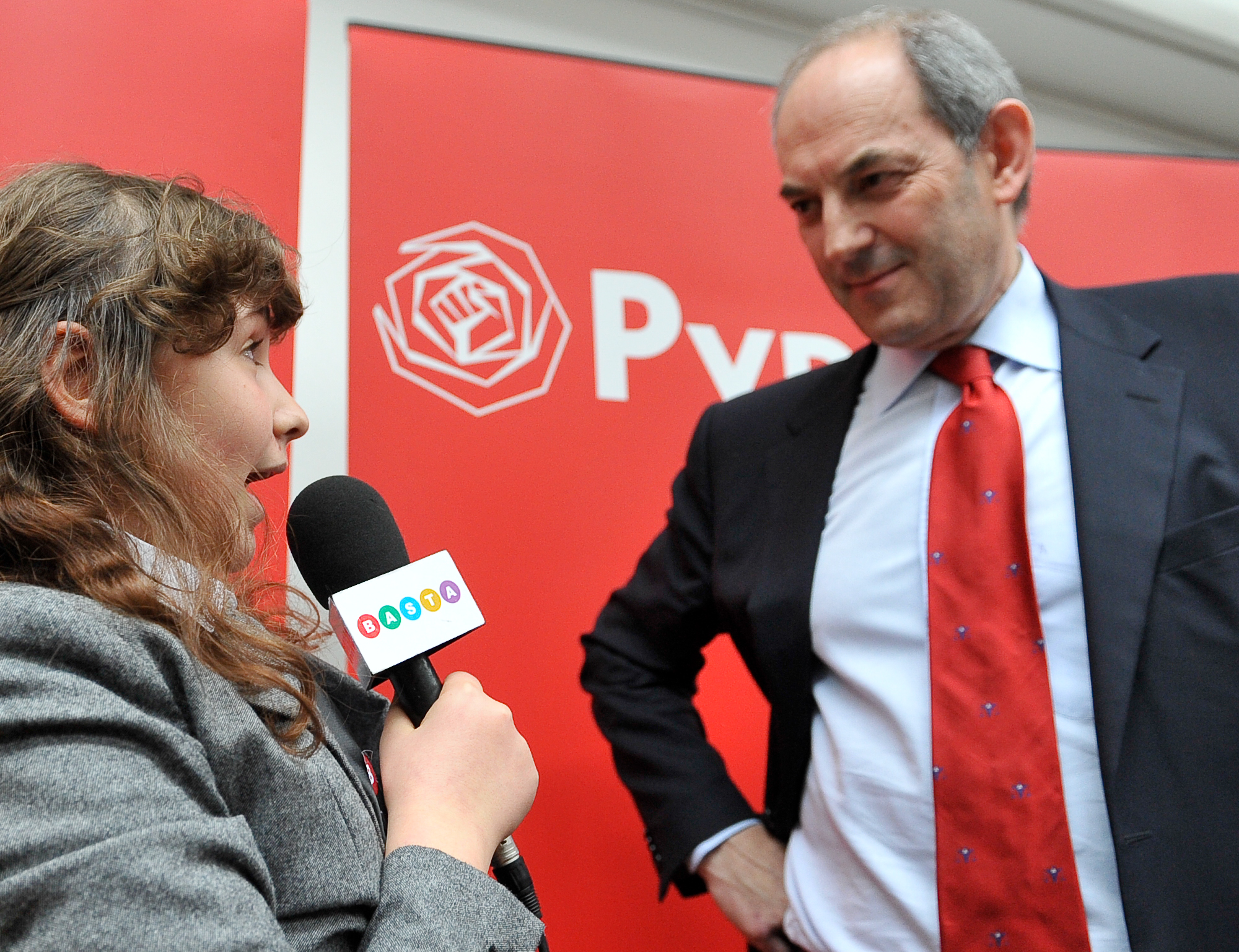 Job Cohen, the former mayor of Amsterdam is announcing that he will be running as leader of the Dutch Labour party. At press conference he is being asked a question by Ese Erhotamis.